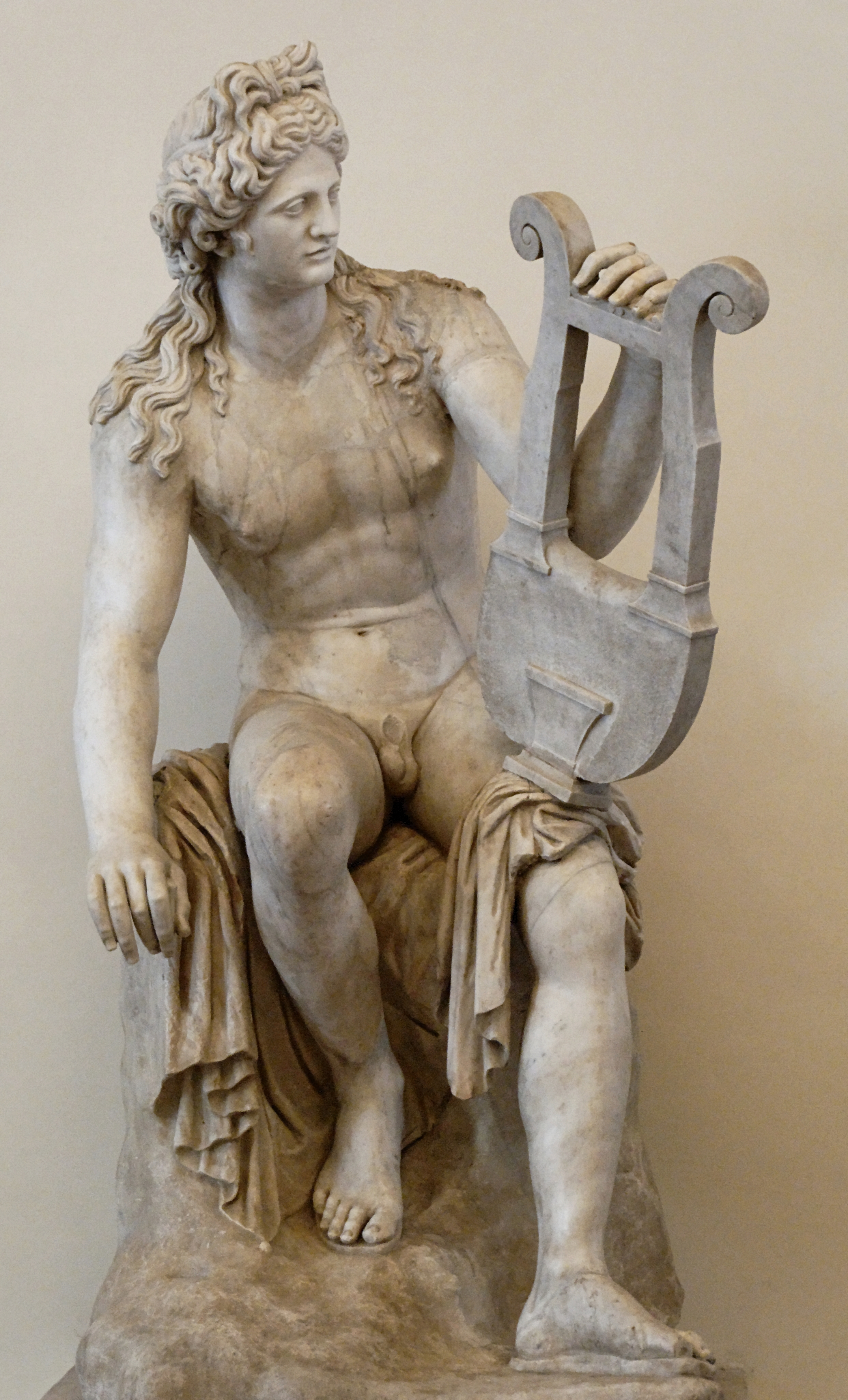 Apollo Kaitharoidos. Marble, original parts (torso and right leg): Roman copy from the first half of the 1st century CE after an Hellenistic original. Heavily restored in the 17th century: head (after the Belvedere Apollo type), neck, right shoulder, left arm and lyre, left leg and cloak.